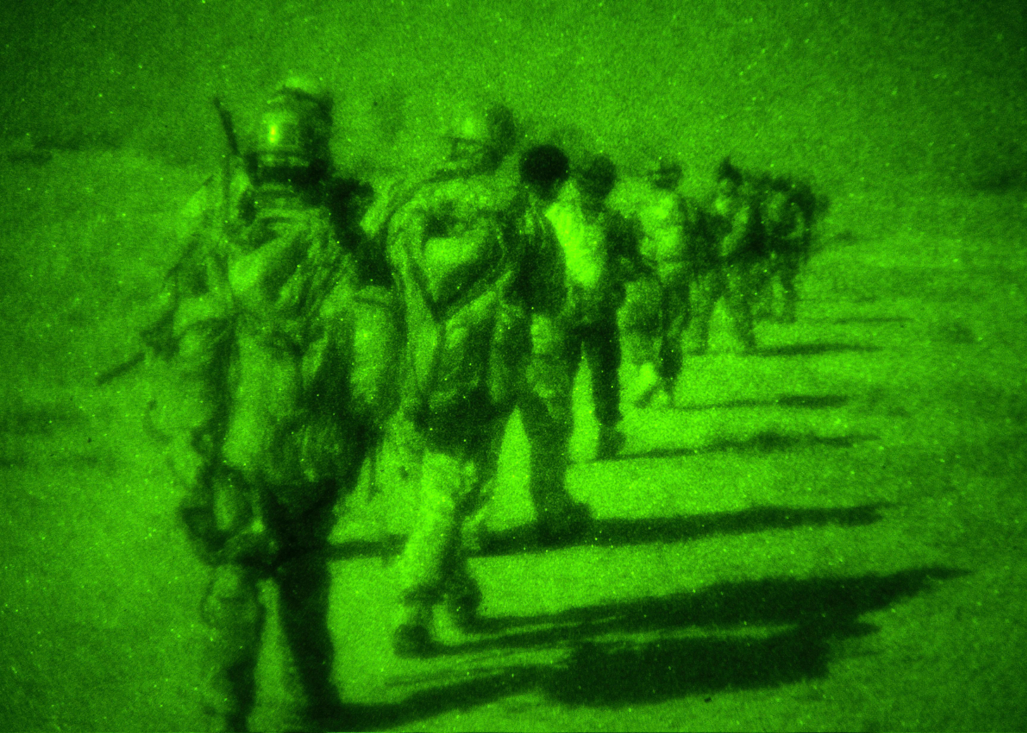 U.S. Navy SEALS with Special Operations Task Force-South approach a village during a clearing operation in Panjwai district, Kandahar province, Afghanistan, April 25, 2011. Afghan National Army Commandos, joined by U.S. Service members with Special Operations Task Force-South and members of the Afghan National Civil Order Police, found Taliban propaganda at a site in Panjwai district and removed three suspected insurgents from the area during the operation. (U.S. Army photo by Sgt. Daniel P. Shook/Released)